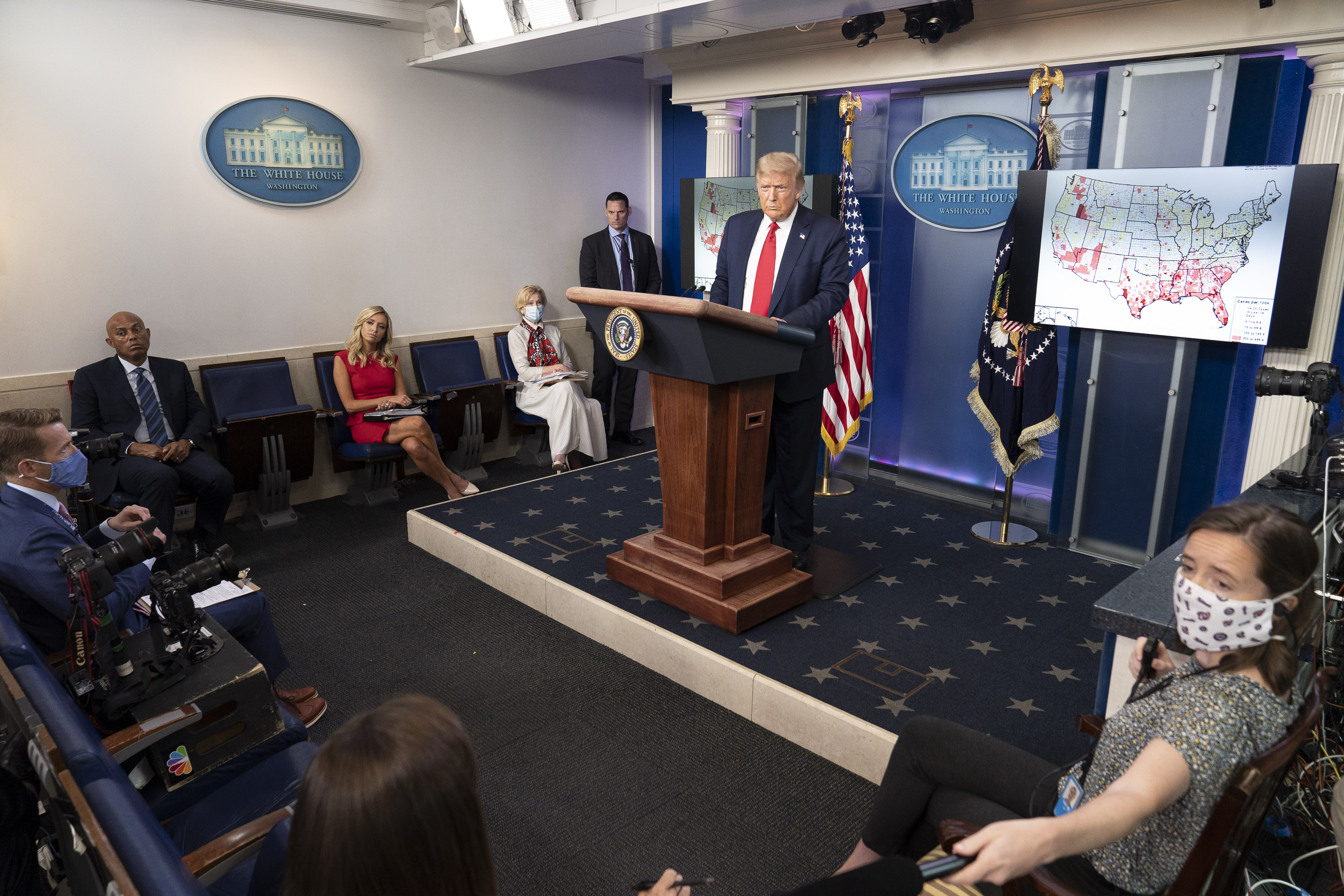 President Donald J. Trump addresses his remarks Thursday, July 23, 2020, in the James S. Brady Press Briefing Room of the White House. (Official White House Photo by Shealah Craighead)